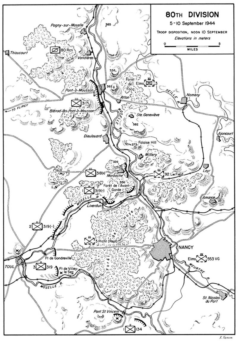 Map of the Nancy battlefield.